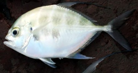 Taken from Cape York